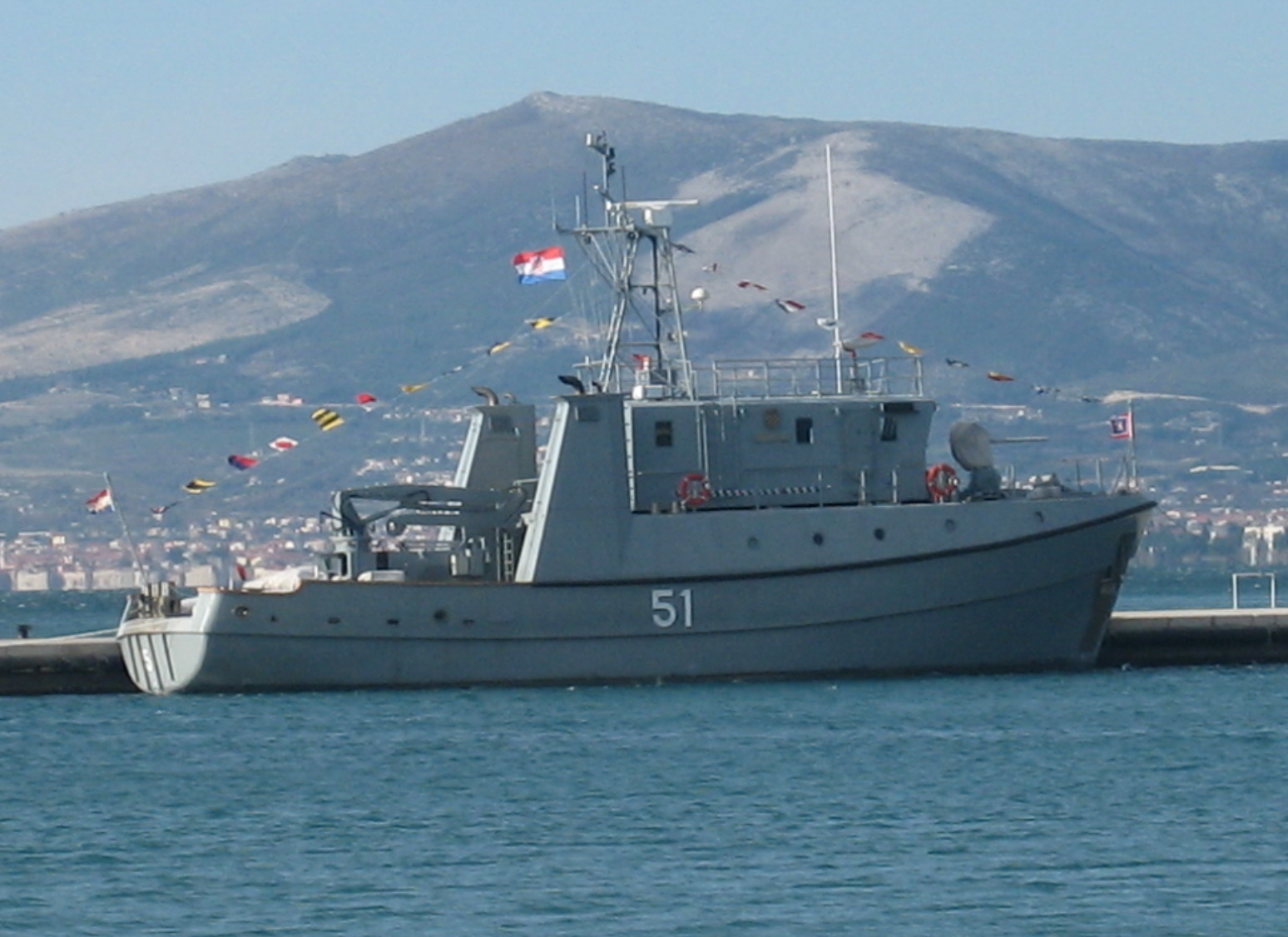 Minehunter of the Croatian navy, LM-51 Korčula